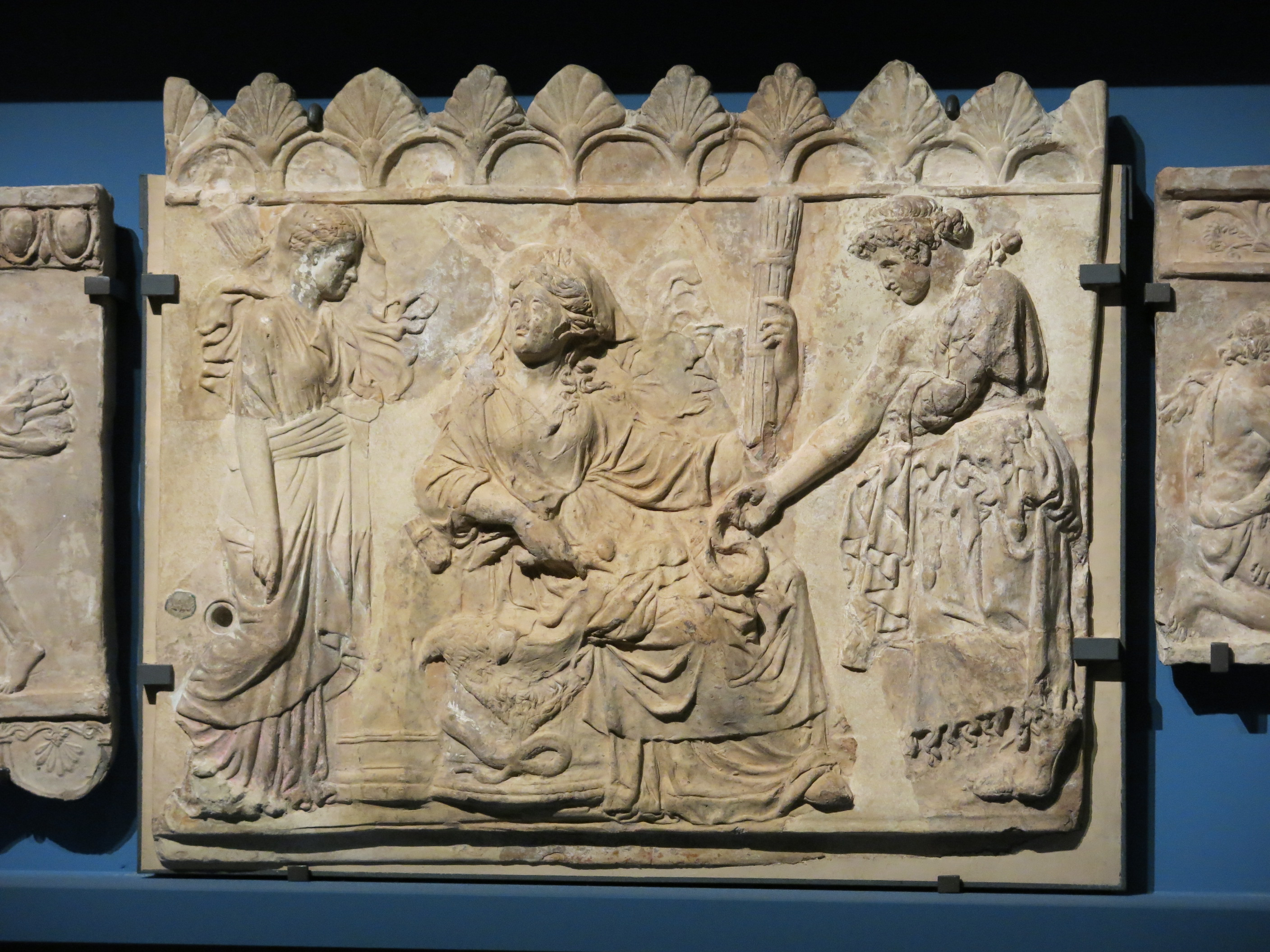 Plaque Campana - Initiation to Eleusinian Mysteries. 1st half of the 1st century BC. Terracotta. Campana collection purchase 1861. Louvre museum (Paris, France).